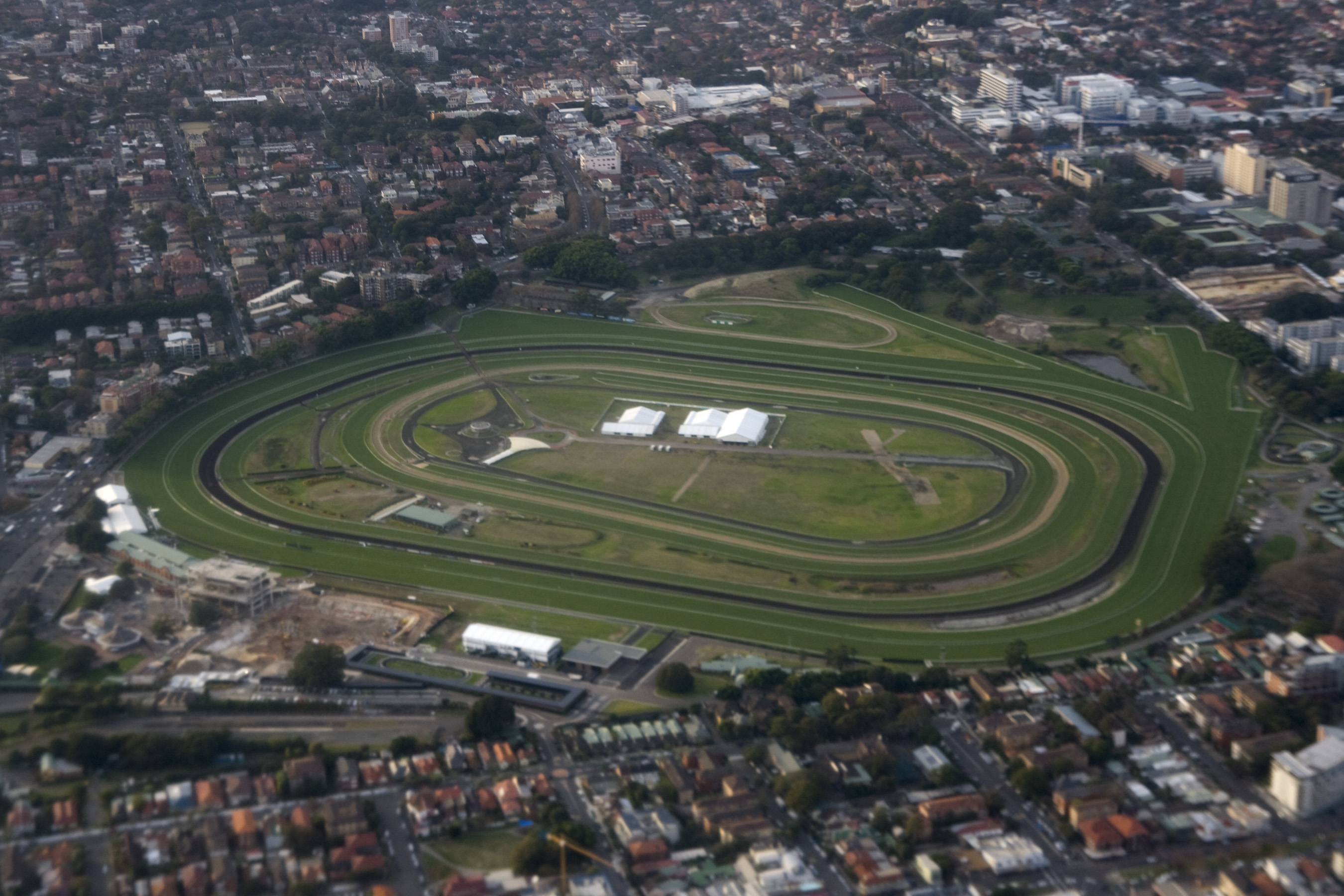 Royal Randwick Racecourse